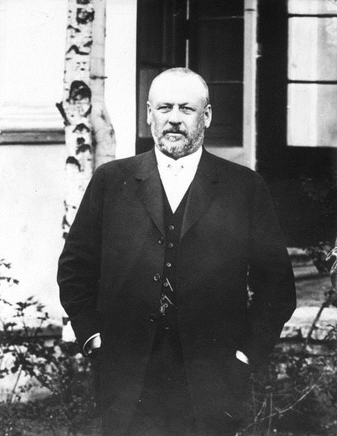 Mikhail Rodzianko